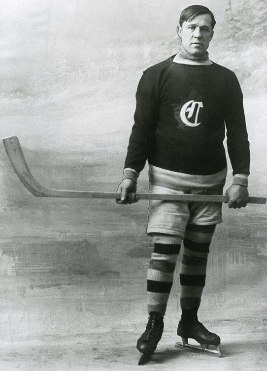 Didier Pitre, of the Montreal Canadiens of the NHA and NHL from 1910 to 1923. Photo circa 1910-11.